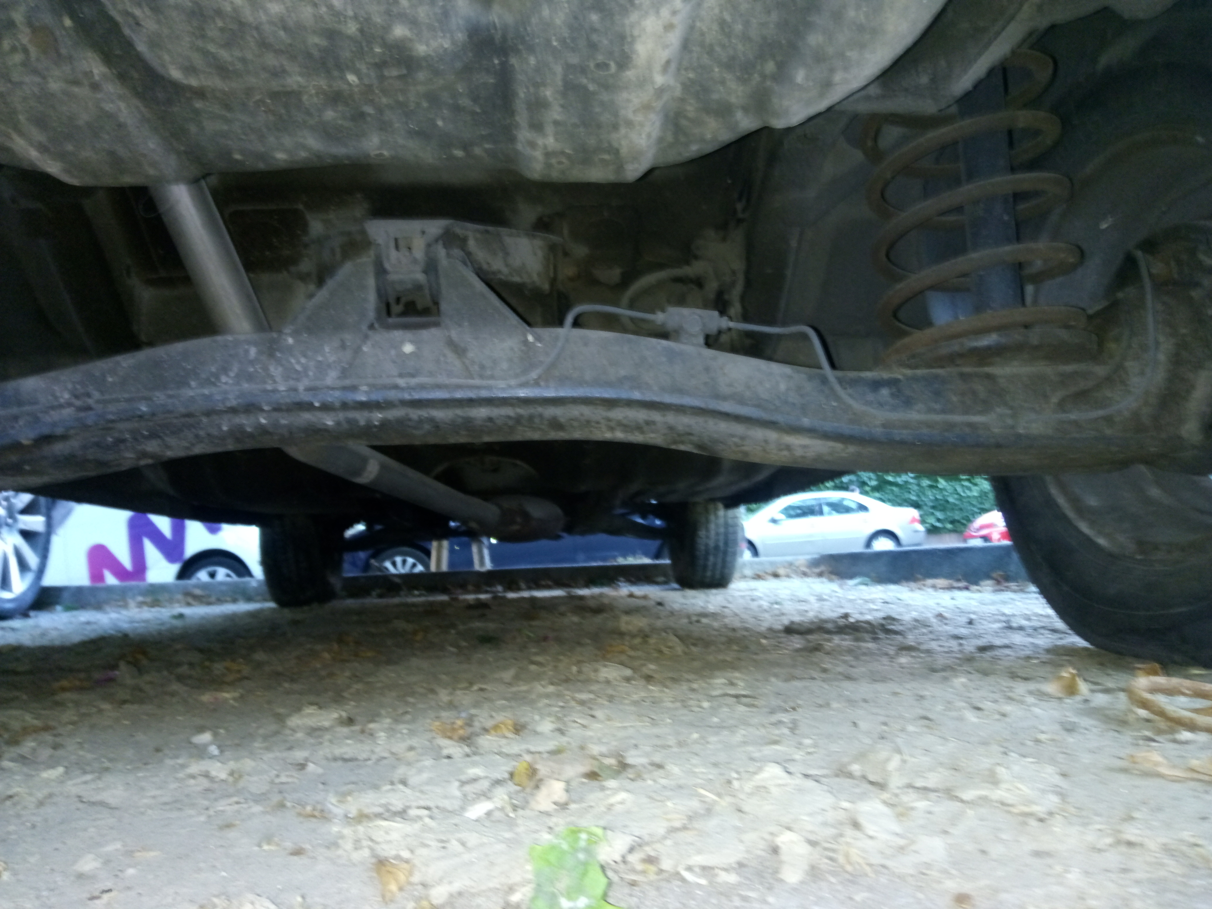 Renault 12 solid beam rear suspension